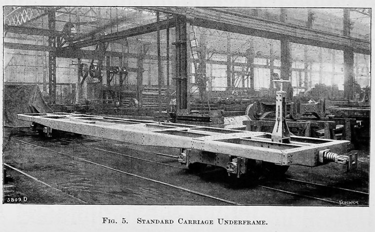 Barsi Light Railway rolling stock by Leeds Forge Co (1897)